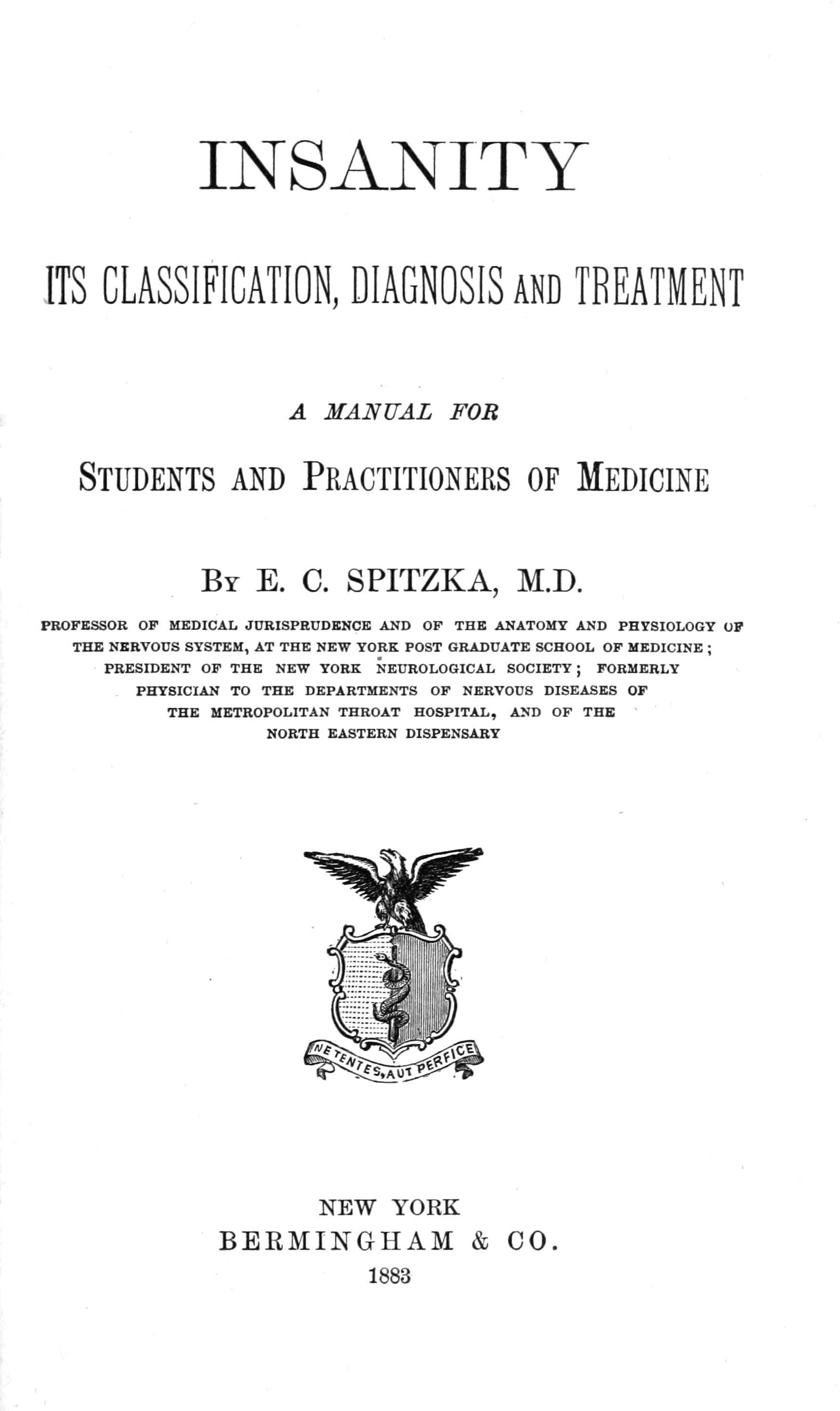 title page of Insanity, Its Classification, Diagnosis and Treatment. A Manual for Students and Practitioners of Medicine. Bermingham & Co., New York 1883. Digital copy retrieved via